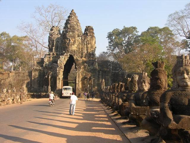 Angkor Thom (in Angkor). Gate